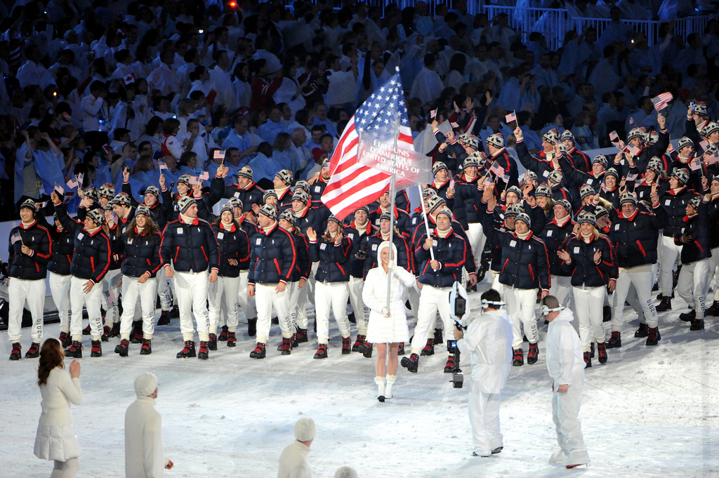 Team USA marches in the parade of athletes around BC Place stadium during the Opening Ceremony of the XXI Olympic Winter Games, Feb. 12, 2010, in Vancouver.